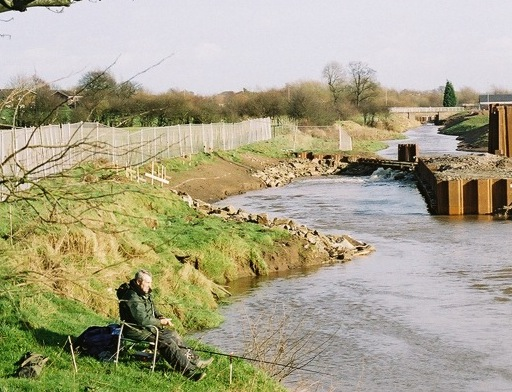 Fishing the Savick Brook, Millennium Ribble Link